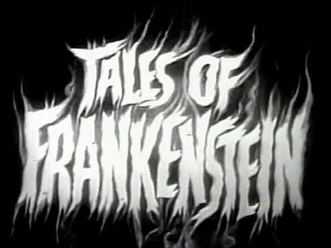 Tales of Frankenstein screenshot